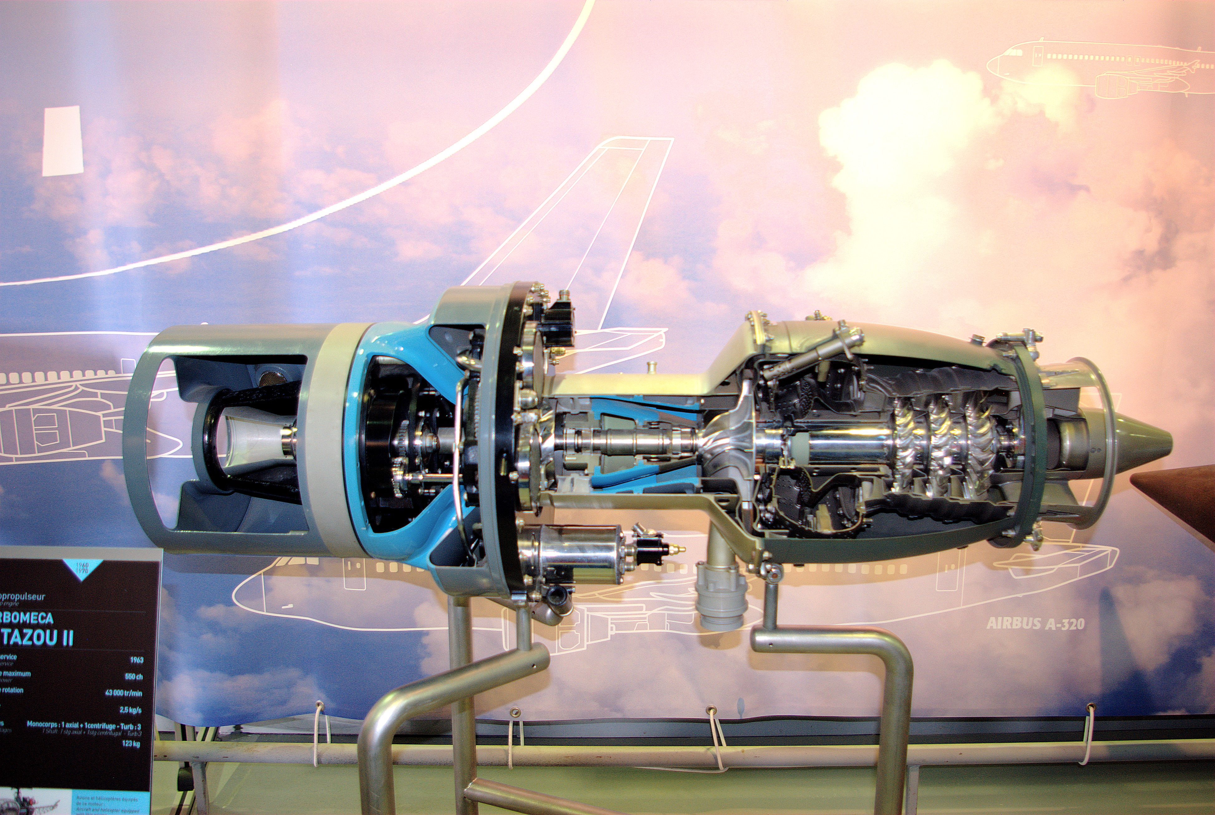 Cutaway view of a Turbomeca Astazou II turboshaft, Safran Museum (France)